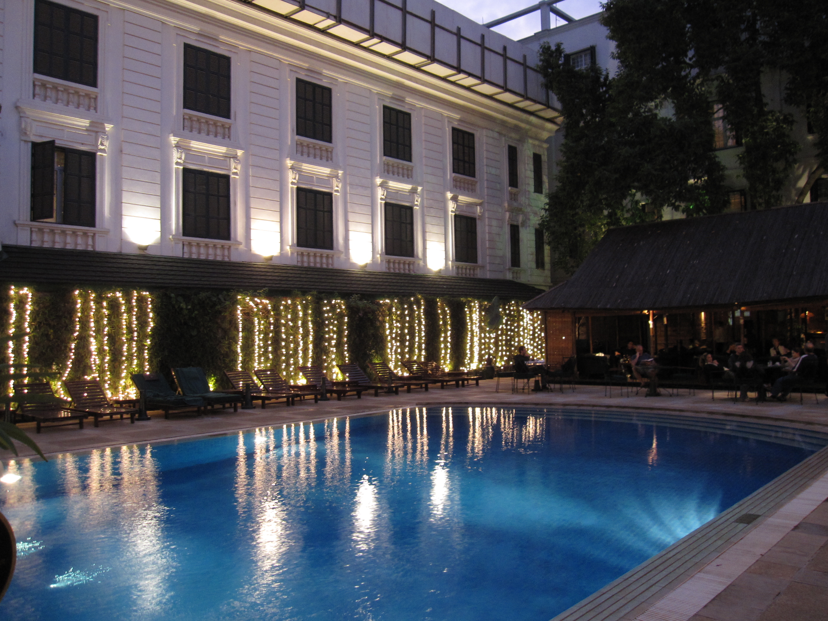 Sofitel Legend Metropole Hanoi